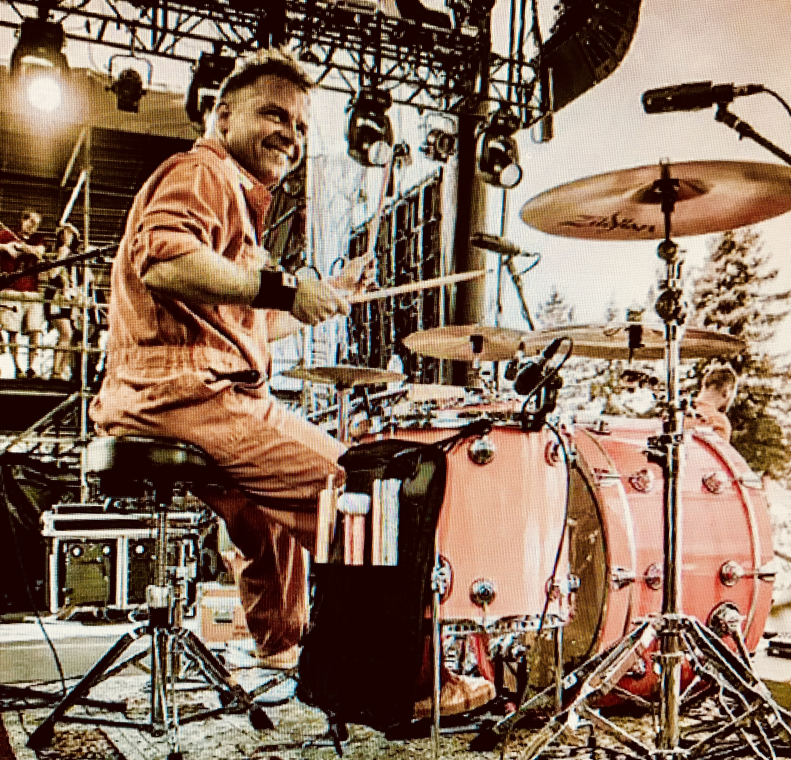 Richard Stuverud with RNDM at BottleRock, 2015